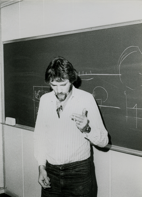 Chalmers-professor Lars Kristiansson lecturing about the upcoming Digital Age. Photo taken around 1979-1980.